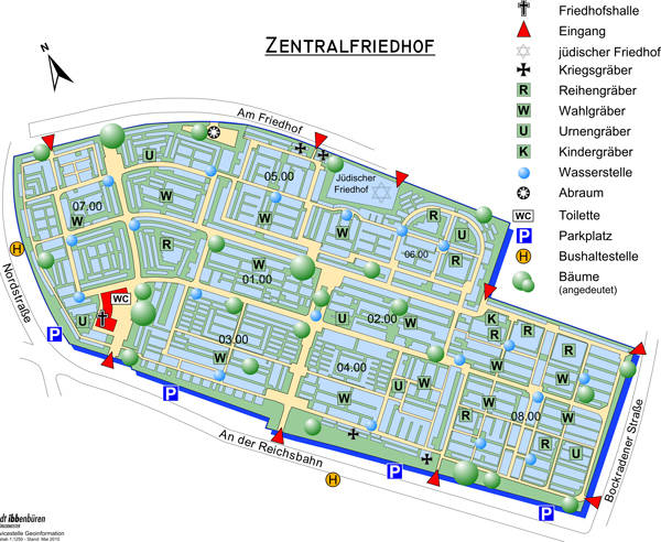 Map of the Central Cemetery (Zentralfriedhof) of Ibbenbüren, Kreis Steinfurt, North Rhine-Westphalia, Germany.